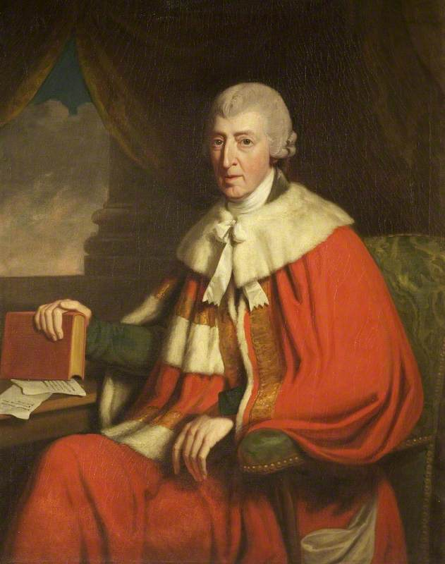 Woodforde, Samuel; Sir William Henry Lyttelton (1724-1808), 1st Baron Westcote of Ballymore and 1st Lord Lyttelton, Baron of Frankley